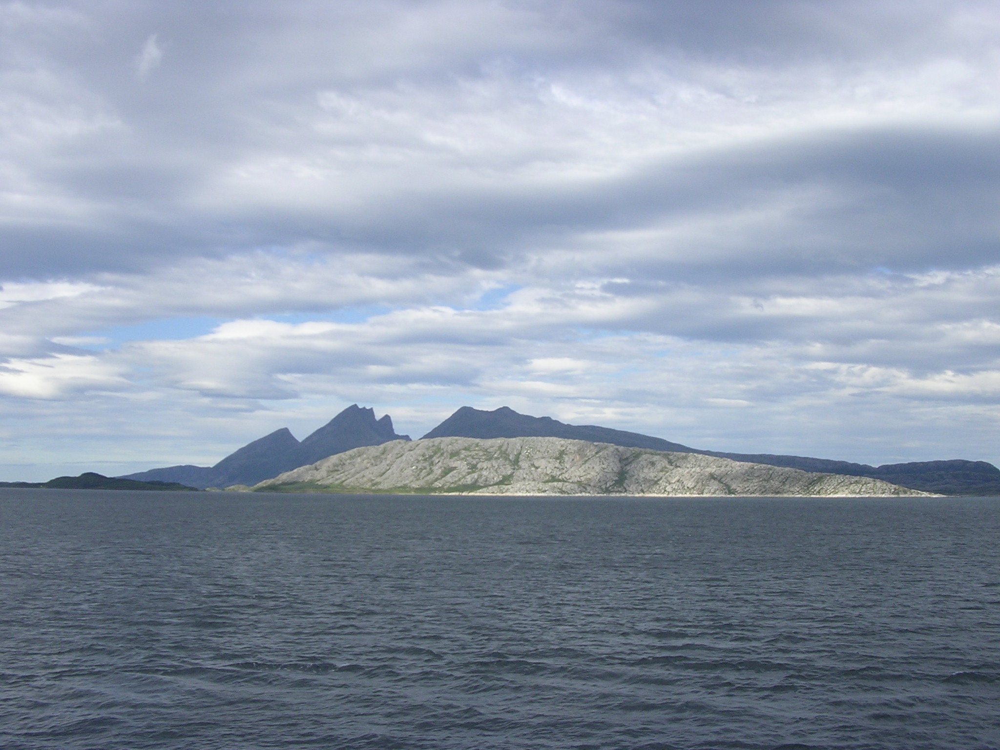 The island Skorpa in Dønna municipality, Nordland, Norway, seen from east. In the background the island Dønna with the mountain "Dønnamannen" (The Dønna man)